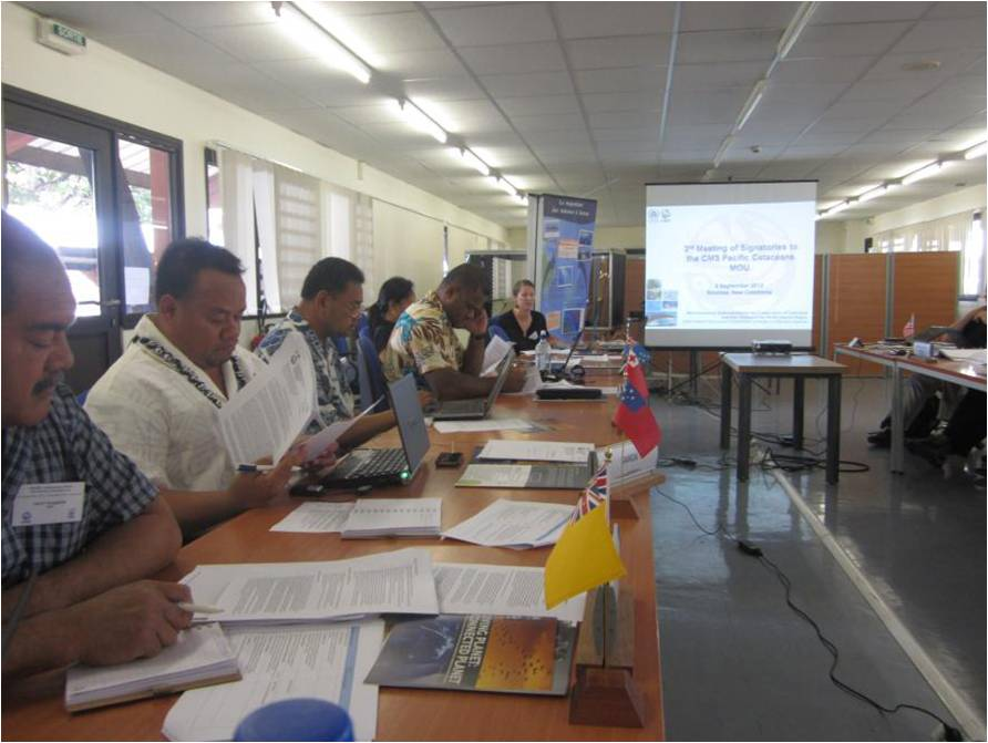 Third Meeting of Signatories to the Pacific Islands Cetaceans Memorandum of Understanding, 8 September 2012, Noumea, New Caledonia